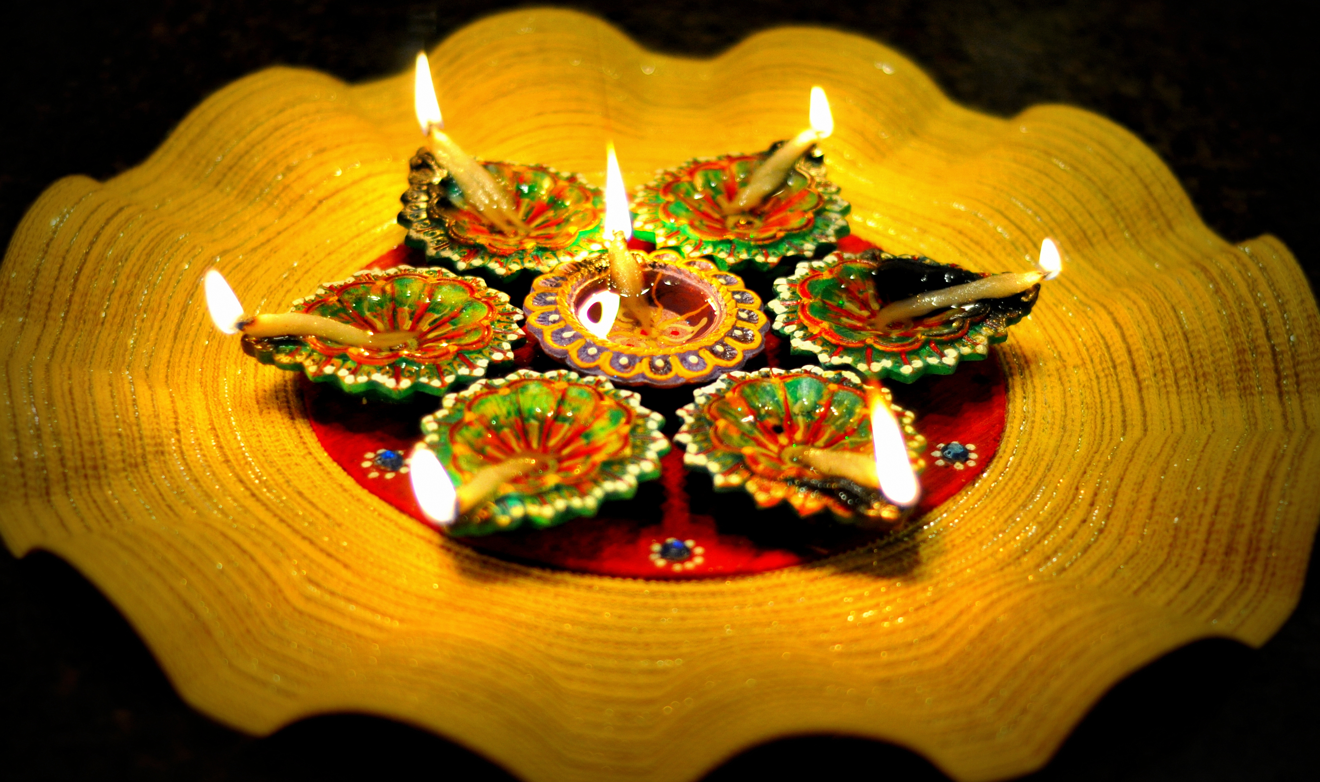 Diwali is an autumn season festival with origins in India. Festivities include hanging lights outside homes and office buildings, lamps such as above inside house, fireworks, sharing sweets with friends and family members and ritual prayers.